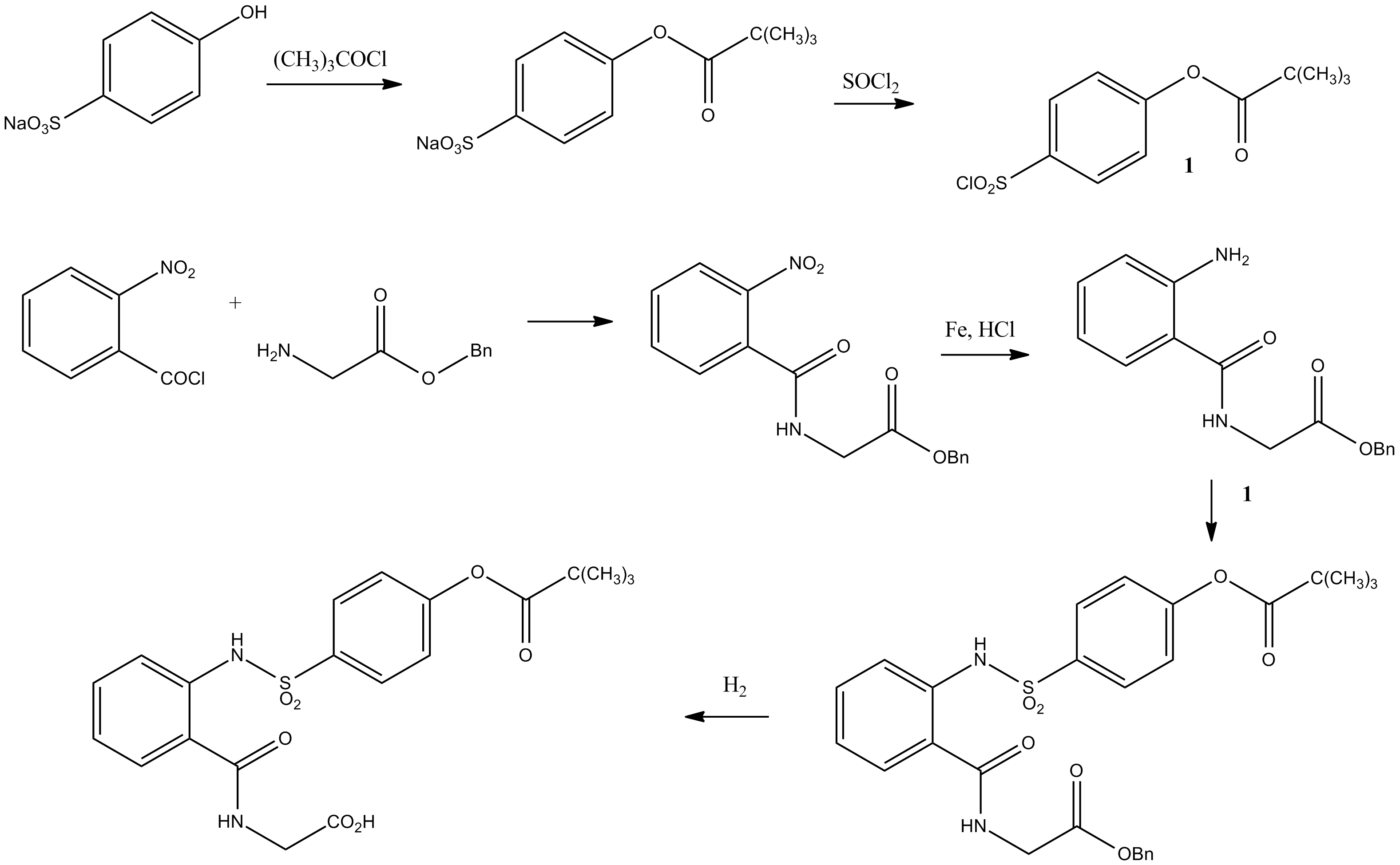 K. Imaki, Y. Arai, T. Okegawa, U.S. Patent 5,017,610 (1991).